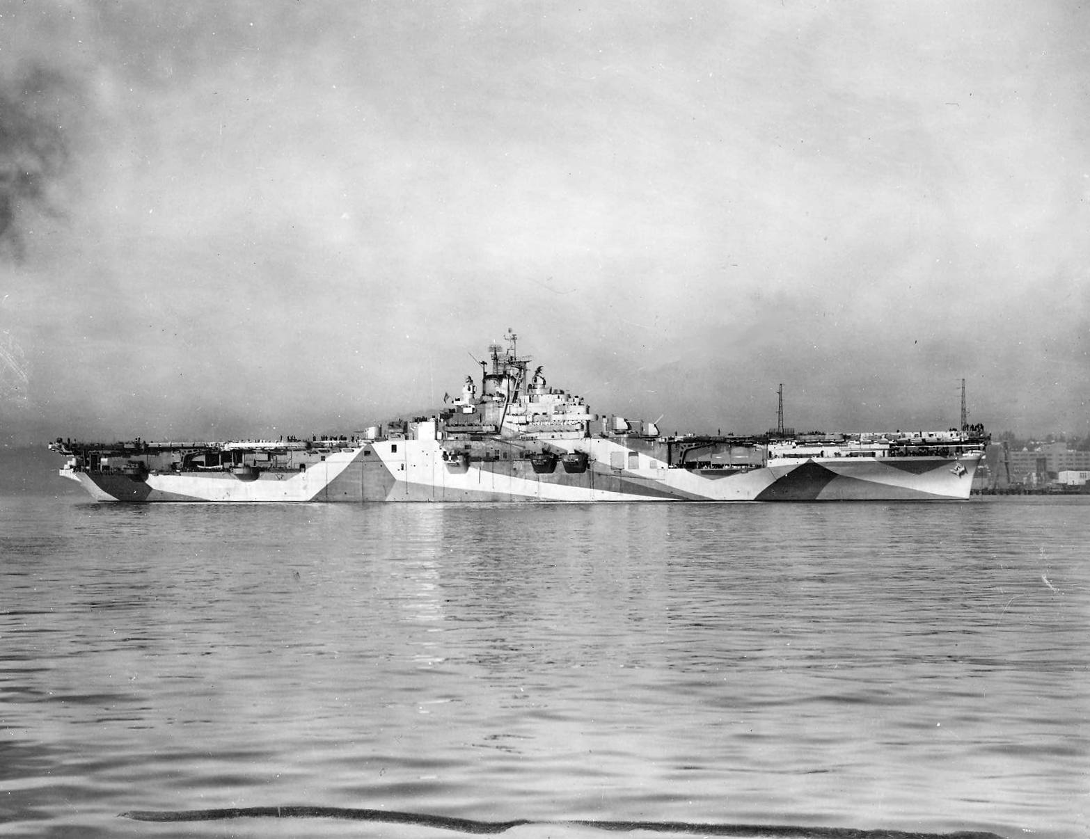 The U.S. Navy aircraft carrier USS Yorktown (CV-10) at anchor at the Puget Sound Navy Yard. She is painted in camouflage Measure 33, Design 10a.